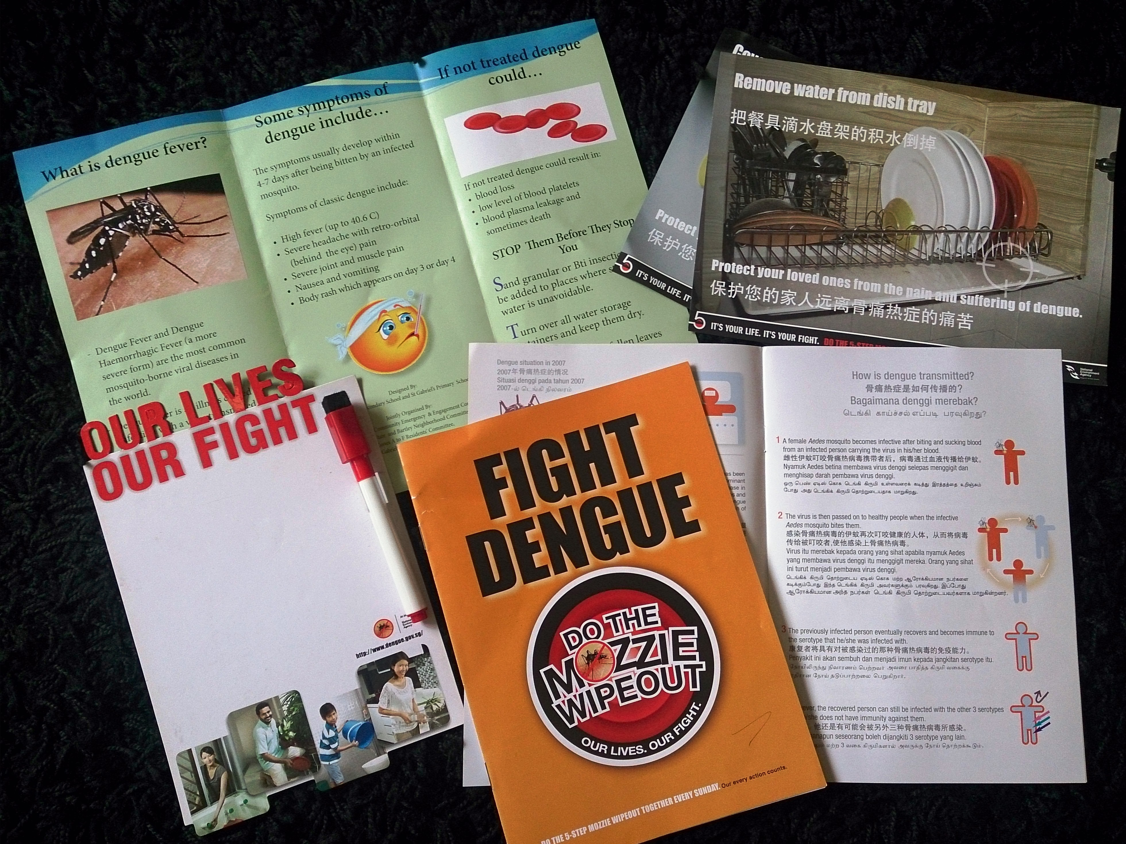 Pamphlets distributed in 2013 by the NEA (National Environment Agency) Singapore as part of the "Do the Mozzie Wipeout" campaign.